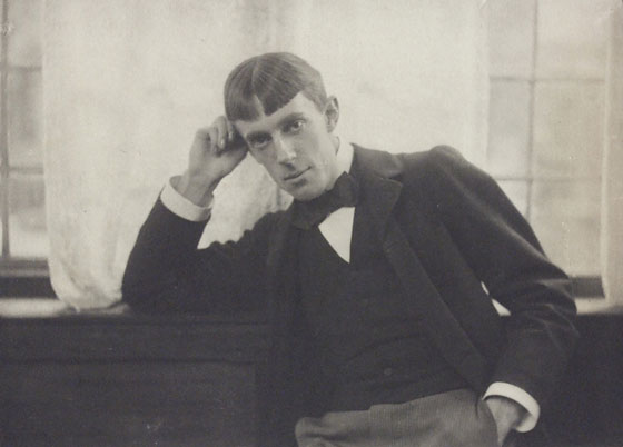 Aubrey Beardsley